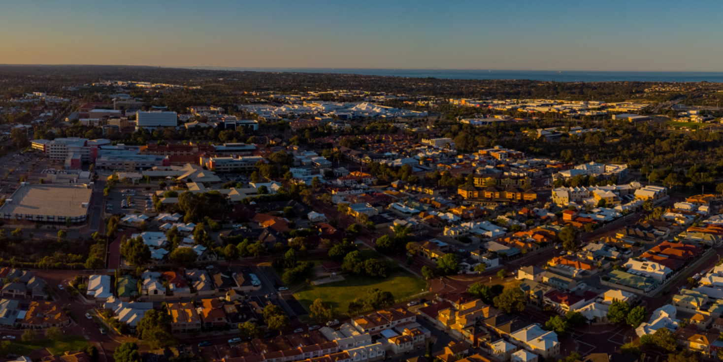 Cropped version of CBD adjacent to Lake Joondalup.jpg